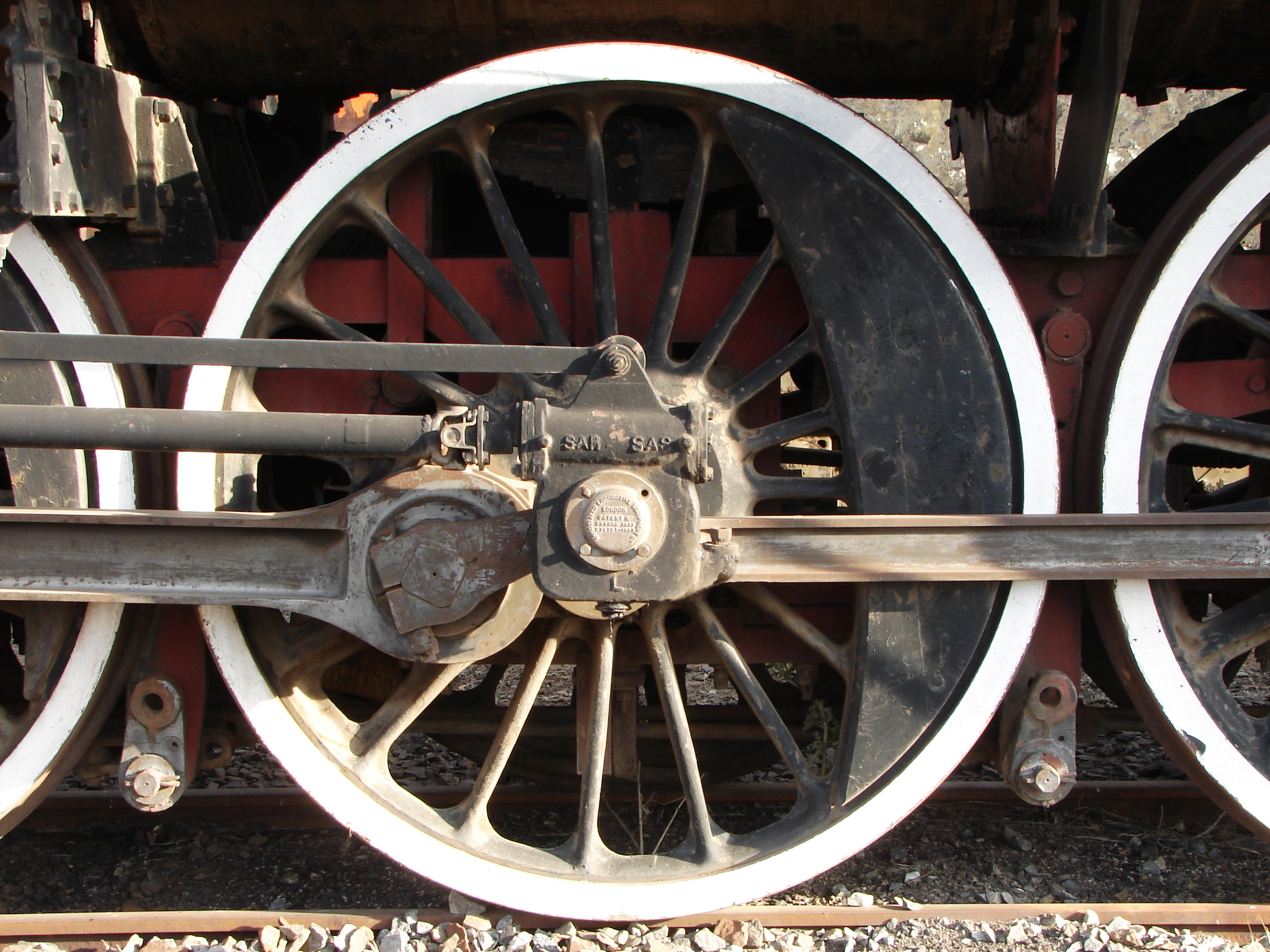 SAR Class 16E 858 (4-6-2) driver. The centre set of the locomotive's 6 feet diameter driving wheels are flangeless and have wider treads than the other two sets to prevent them from slipping off the rails in sharp curves. The turning mechanisms for the poppet valve gear are mounted on these wheels and the drive shafts that turn the camshafts of the valves are no different from those found under most rear wheel drive cars and trucks.Location: Beaconsfield, Kimberley, Northern Cape